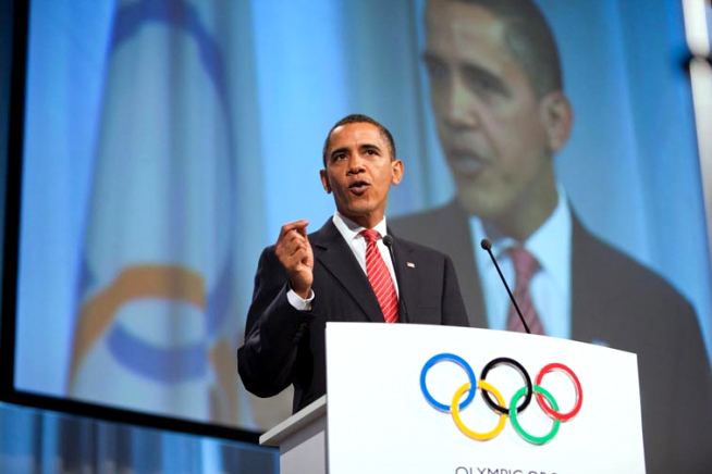 President Barack Obama speaks to promote Chicago's bid to host the 2016 Summer Olympic Games in Copenhagen October 2, 2009.